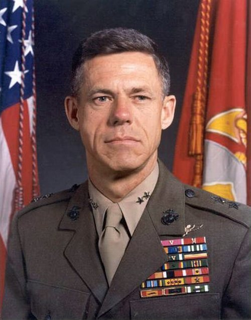 Official United States Marine Corps photo of Major General John V. Cox. Taken in the early 1980s.